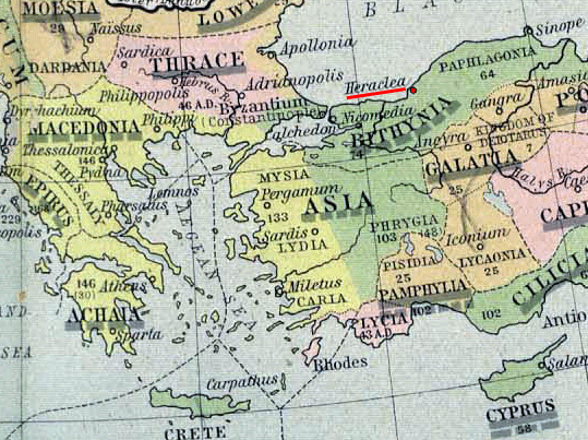 Localization of Heraclea Pontica.